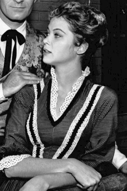 Louise Fletcher with Hugh O'Brian on the set of Wyatt Earp (1961).